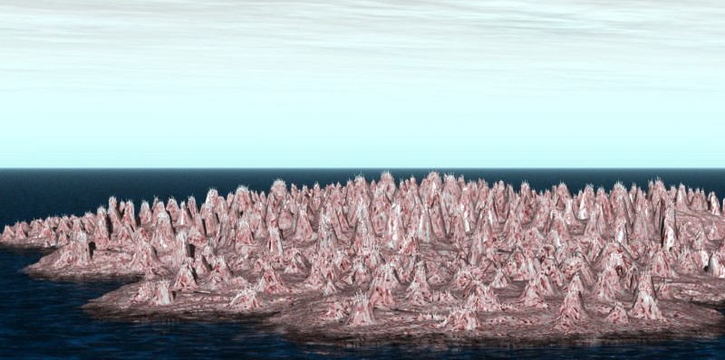 A mimoid during the blue day.